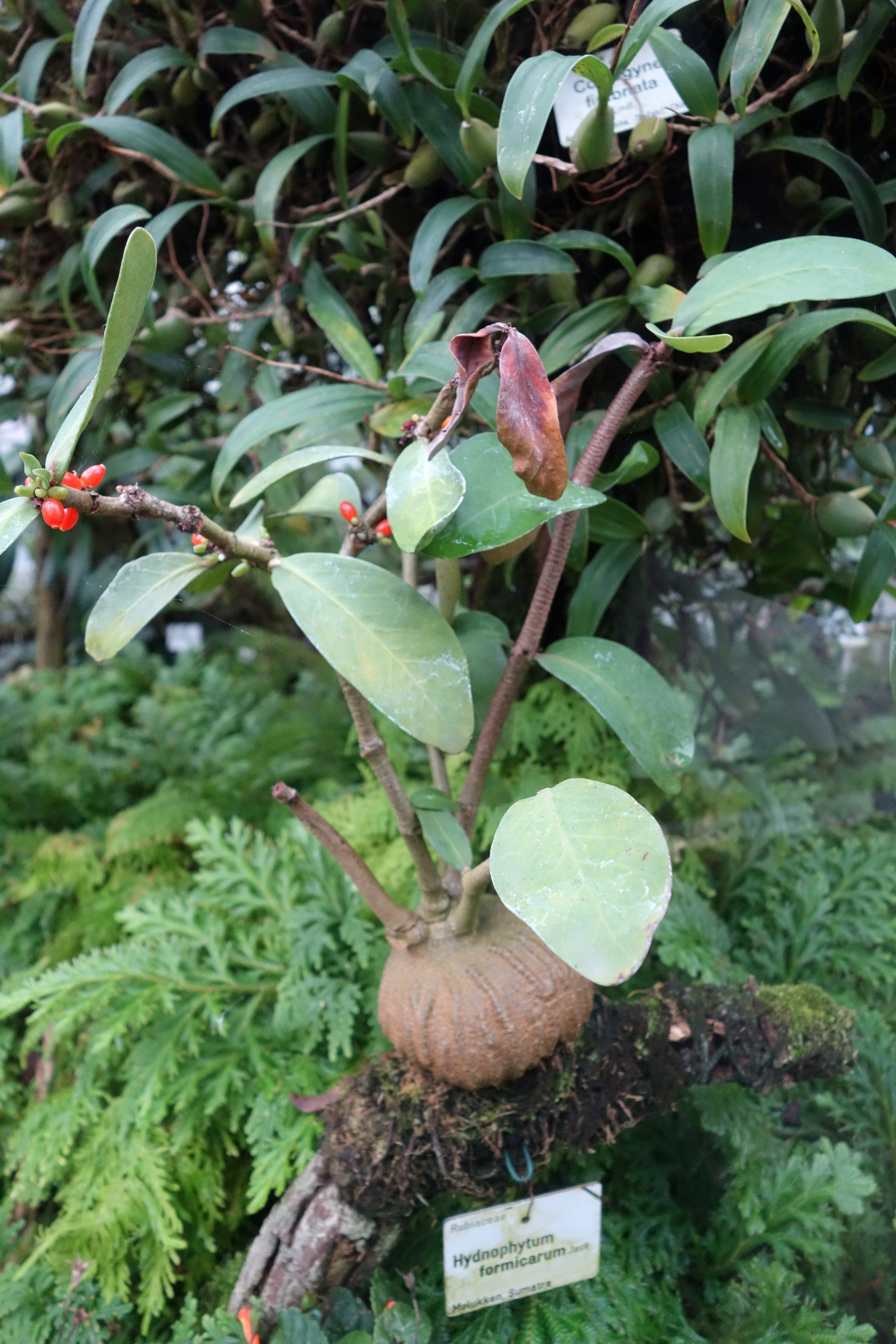 Botanical specimen in the Botanischer Garten, Dresden, Germany.